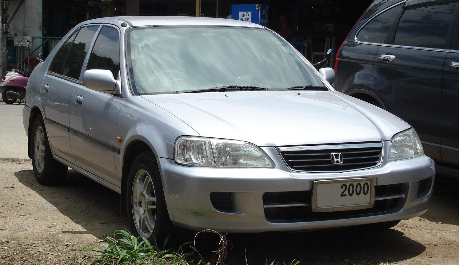 Facelift's model of the third generation Honda City was called Honda City Type Z